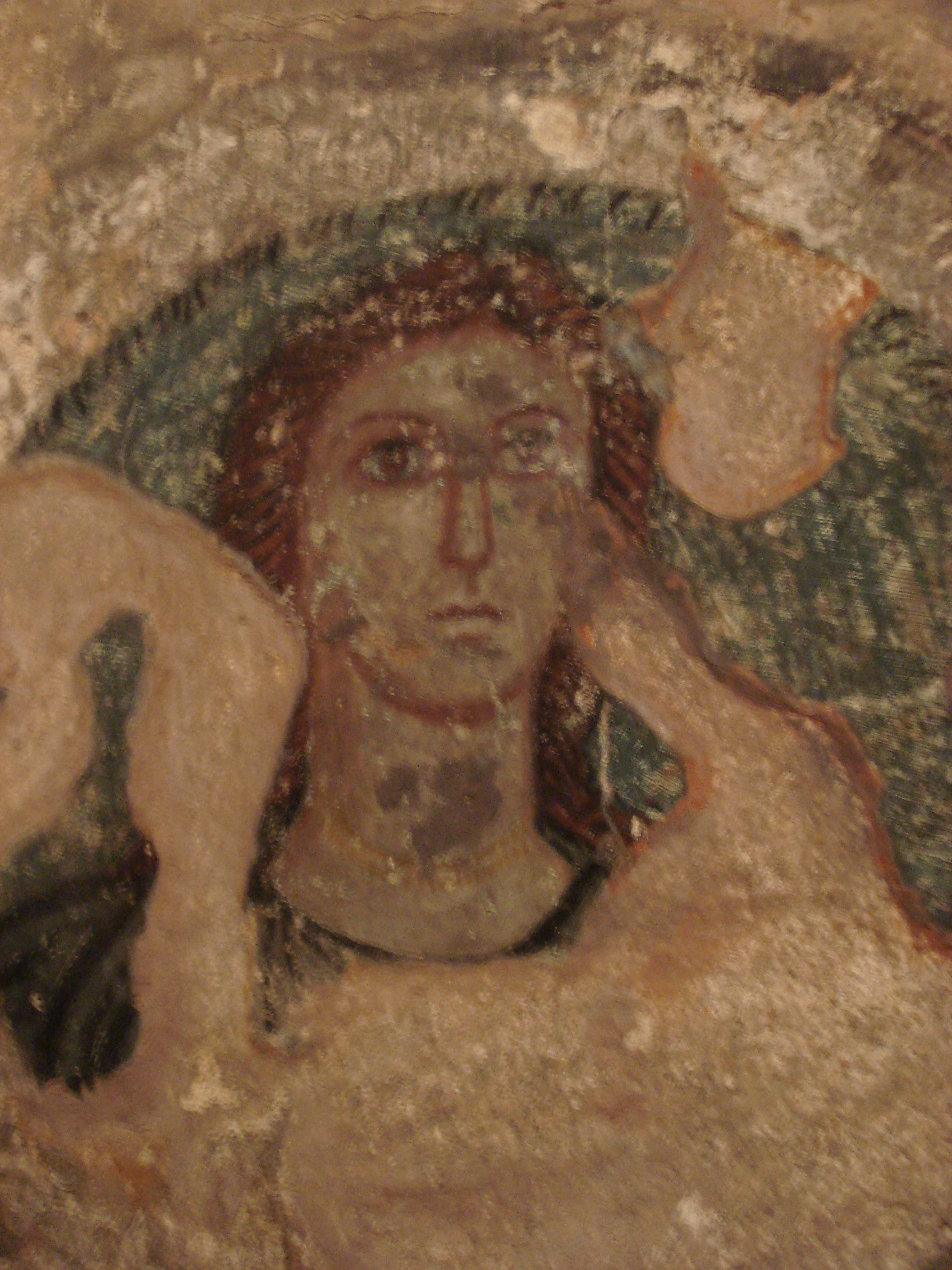 A Greek fresco depicting the goddess Demeter, from Panticapaeum in the ancient Bosporan Kingdom (a client state of the Roman Empire), 1st century AD, Crimea. The following quotation is provided by The Perseus Catalog (Tufts University, the University of Leipzig), extracted from Stillwell, Richard, MacDonald, William L. McAlister, Marian Holland (1976). "PANTIKAPAION (Kerch) Bosporus," in The Princeton Encyclopedia of Classical Sites. Princeton, N.J. Princeton University Press."The funerary architecture is monumental: a succession of kurgans 4th c. B.C.-2d c. A.D.—the Golden Kurgan, Royal Kurgan, Kul Oba and Melek Cesme—show the complete evolution of this type of tumulus tomb...The Demeter kurgan, which dates from the 1st c. A.D., is much smaller than these and has a well-preserved fresco. In the center of the cupola is a medallion containing the head of Demeter. A frieze on the walls represents Pluto, Demeter, the nymph Calypso, and Hermes. The frescos in still later tombs show mainly battle scenes, gradually giving way to more schematic, geometric designs. The rich grave gifts in the tombs indicate the wealth of the city and its inhabitants."